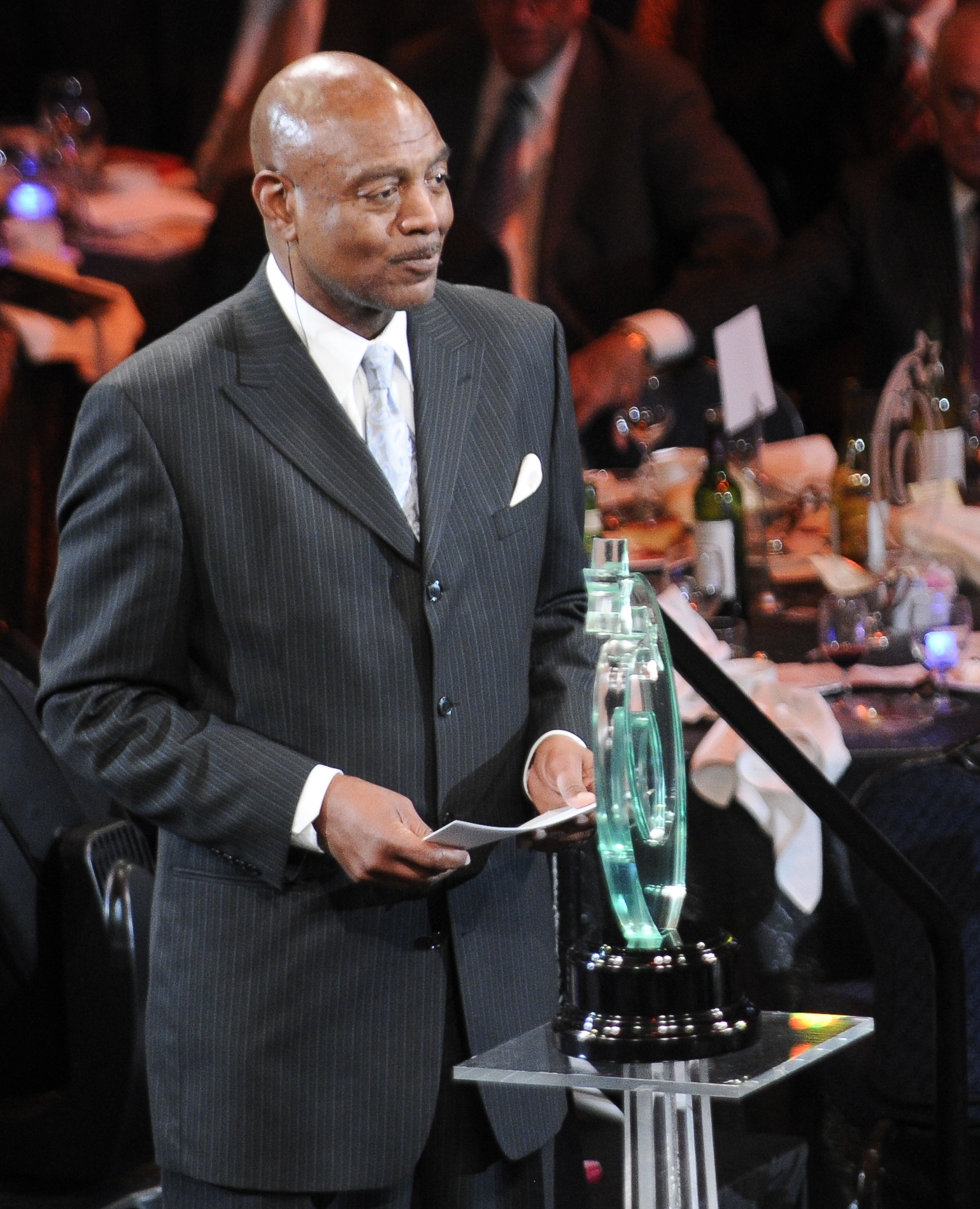 Reggie Rucker, Cleveland Browns presenting the Lifetime Achievement Award at the 2011 Greater Cleveland Sports Awards